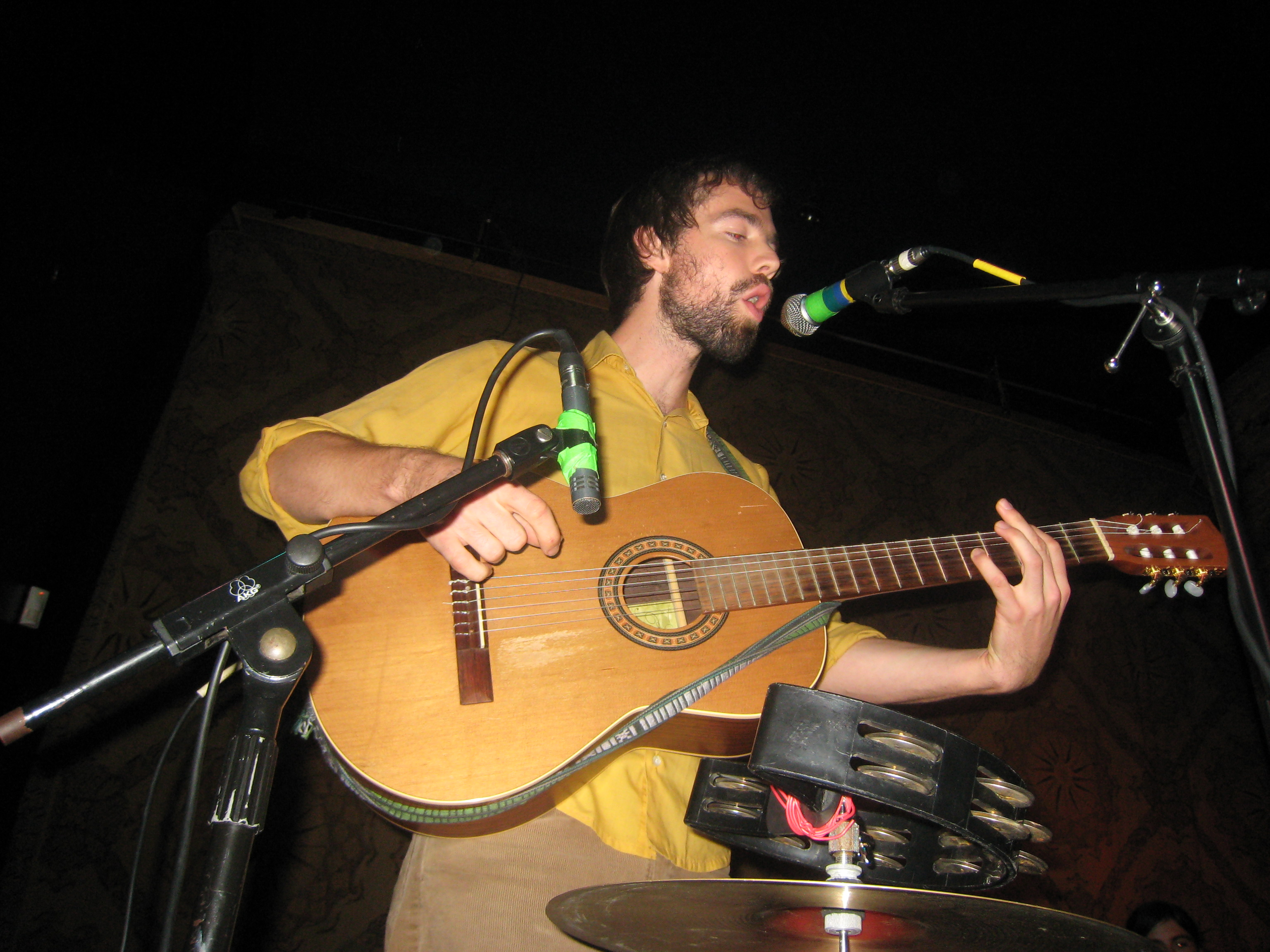 The Bowerbirds at the Northstar Bar in Philadelphia